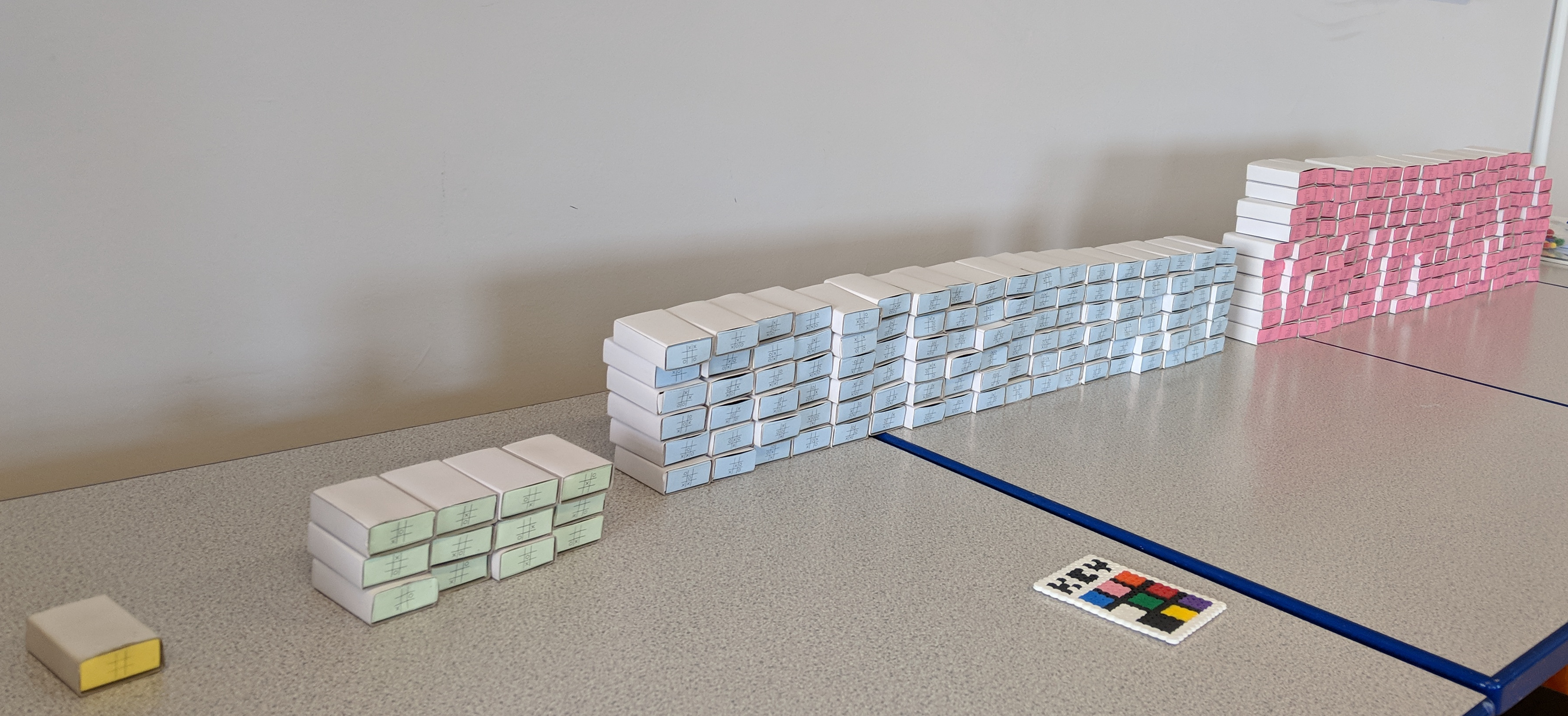 A recreation of MENACE built by Matthew Scroggs